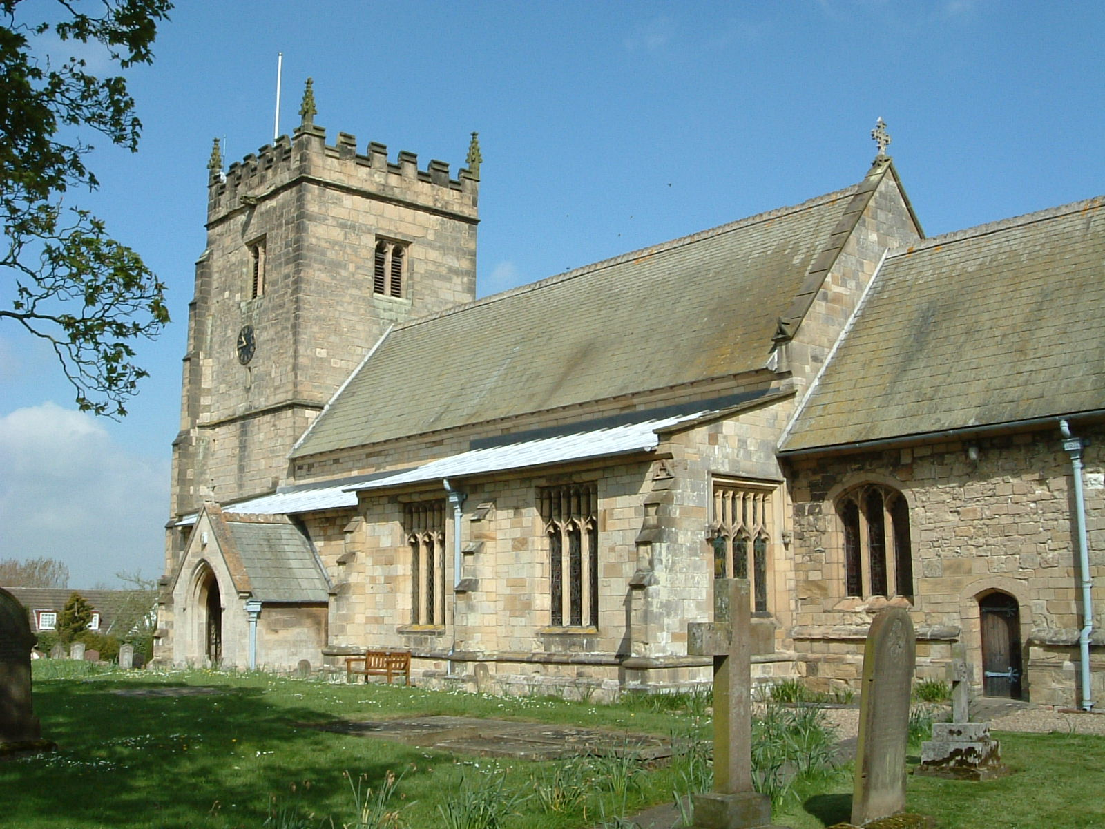 St Peter's Church, Hutton Cranswick, East Riding of Yorkshire, England.Taken by James@hopgrove, May 2005